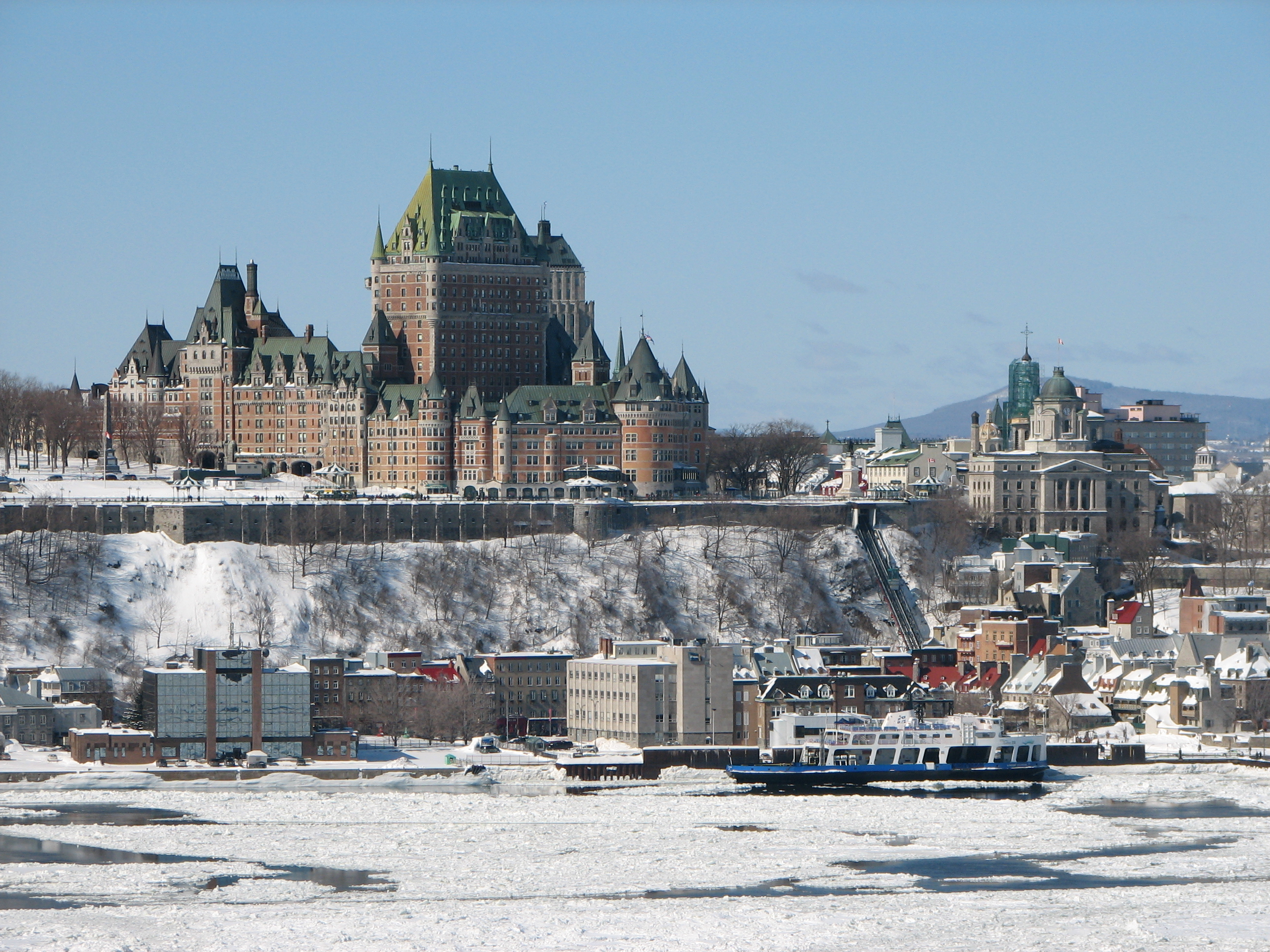 Quebec City and the Chateau Frontenac, view from Lévis, Canada